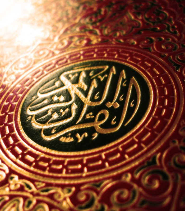 Front of the Koran. This is a smaller size and resolution of Image:Koran cover calligraphy.PNG